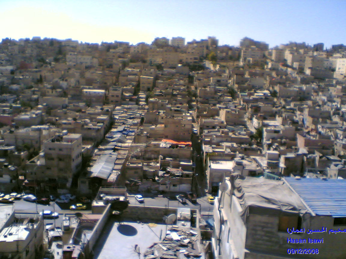 CAMP Al-Hussein NUMBER OF REGISTERED REFUGEES 29,520 - Palestinian REFUGEE CAMP in JORDAN